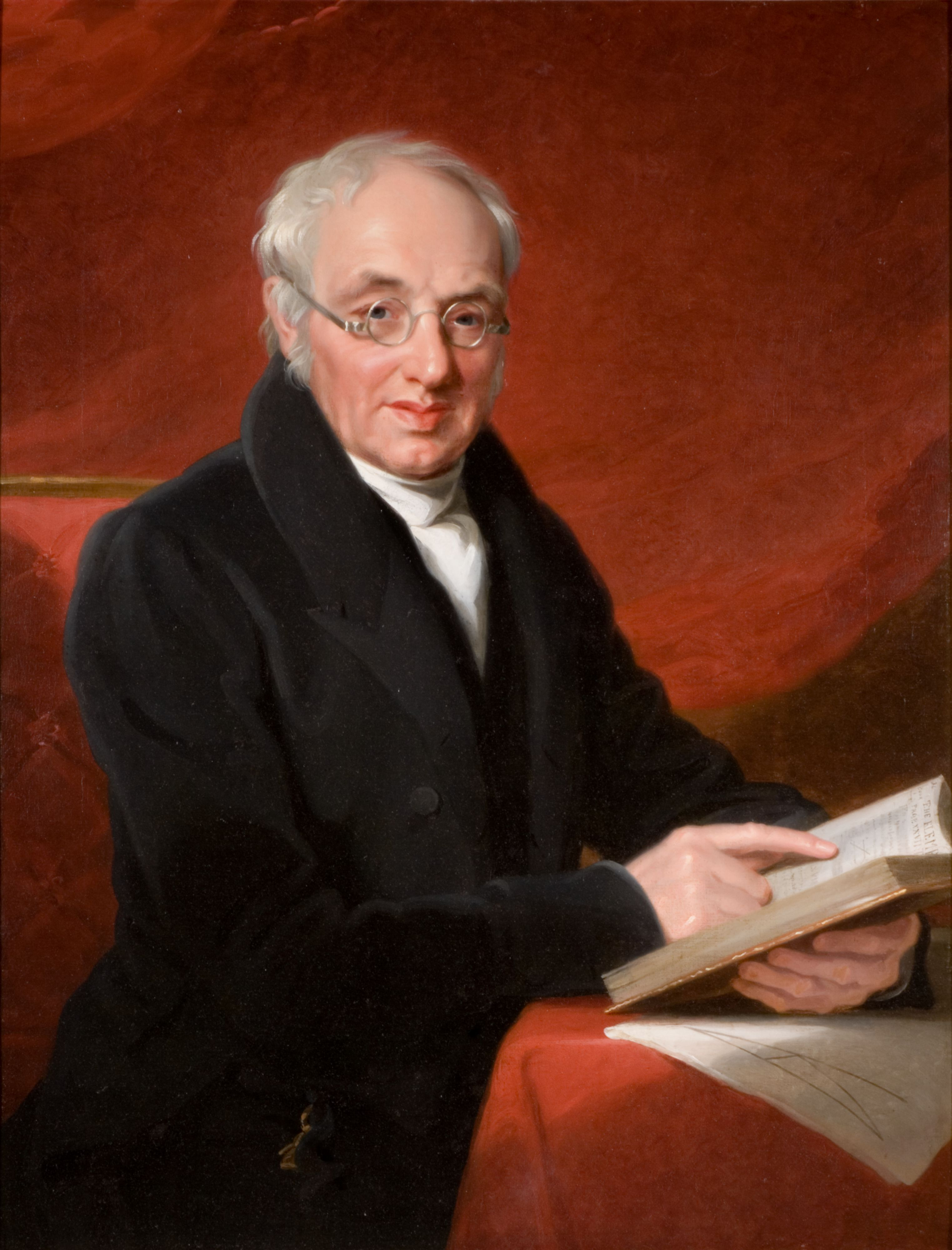 This portrait is by British portrait artist Mary Martha Pearson (1798 –1871) .